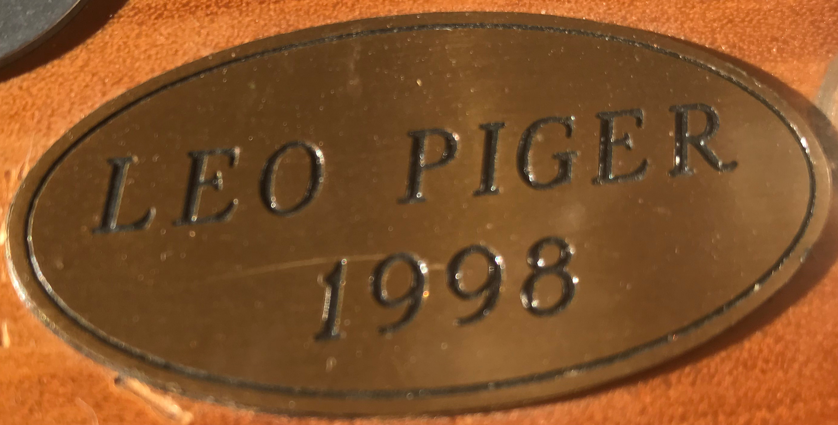 Patch on the trophy